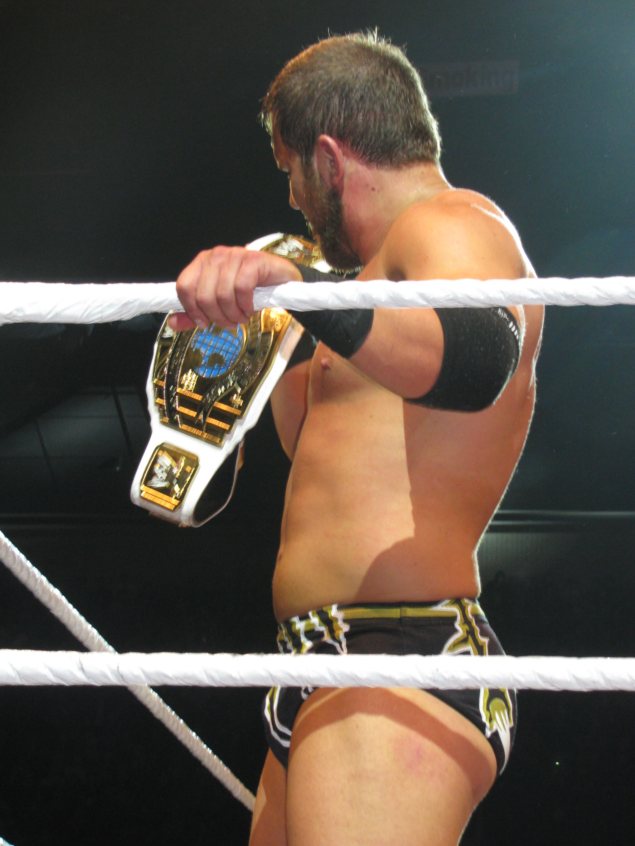 Curtis Axel @ Adelaide, South Australia WWE house show on the 29th of July '13